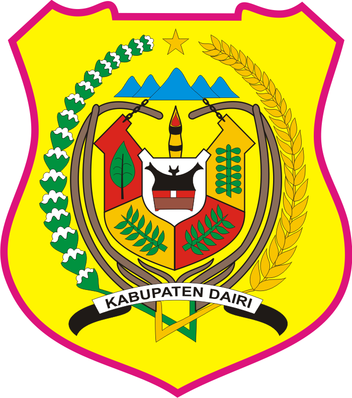 The emblem of the Dairi Regency, a regency in North Sumatra, Indonesia